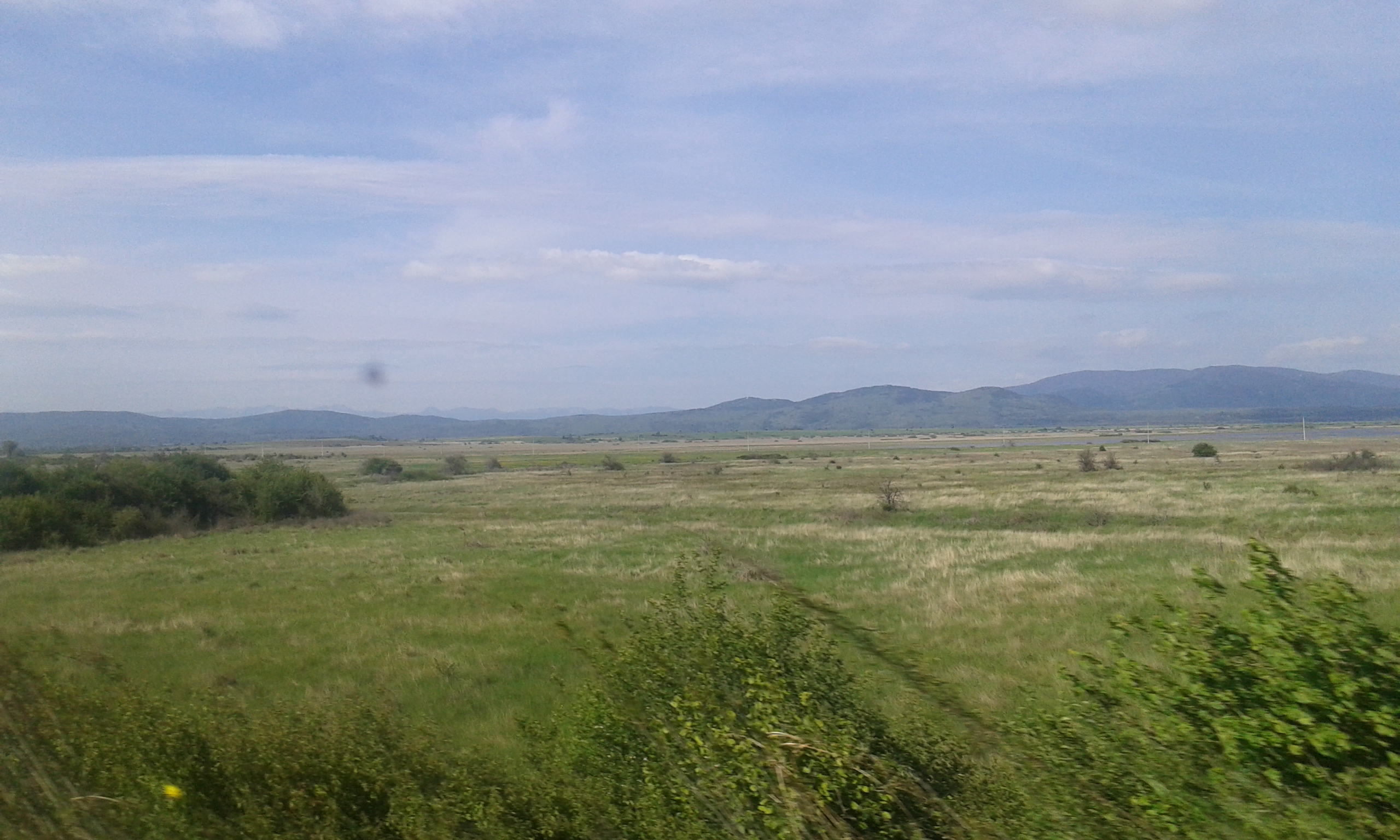 Krbava field